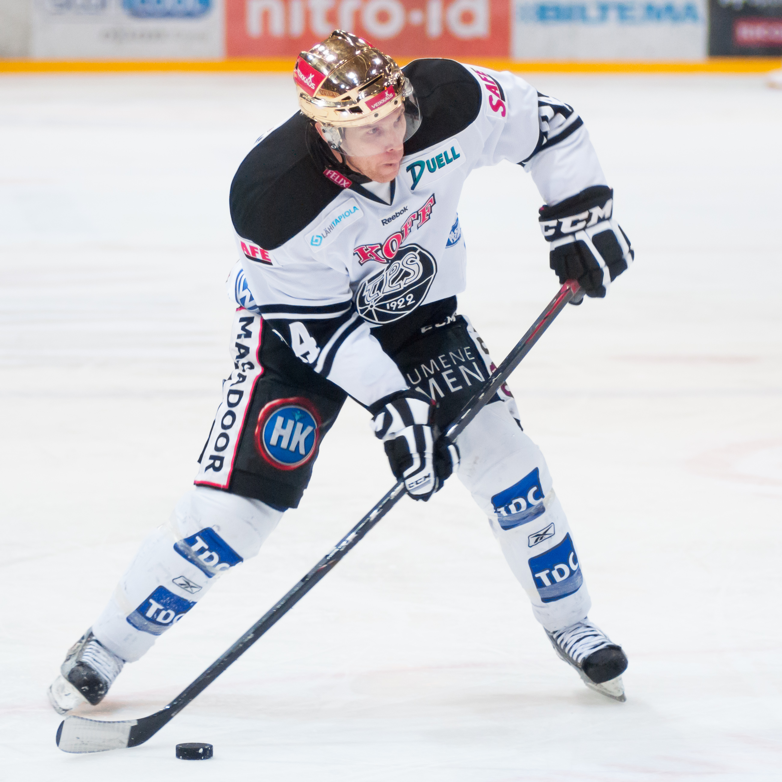 Canadian ice hockey forward Brian Willsie playing for Turun Palloseura against SaiPa Lappeenranta in Lappeenranta, Finland.